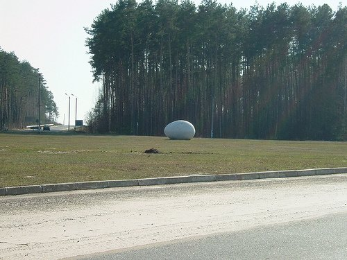 "Big Egg" on a flowerbed at the girdle road near Ivankiv's bus station.